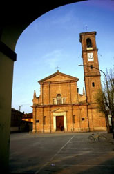 Osasio (province of Torino); the parish church